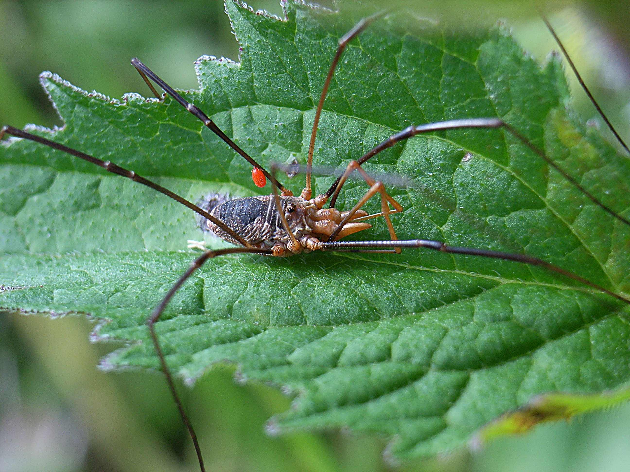 Phalangium opilio; red animal on leg is a parasitic mite larva, probably Trombidium holosericeum.